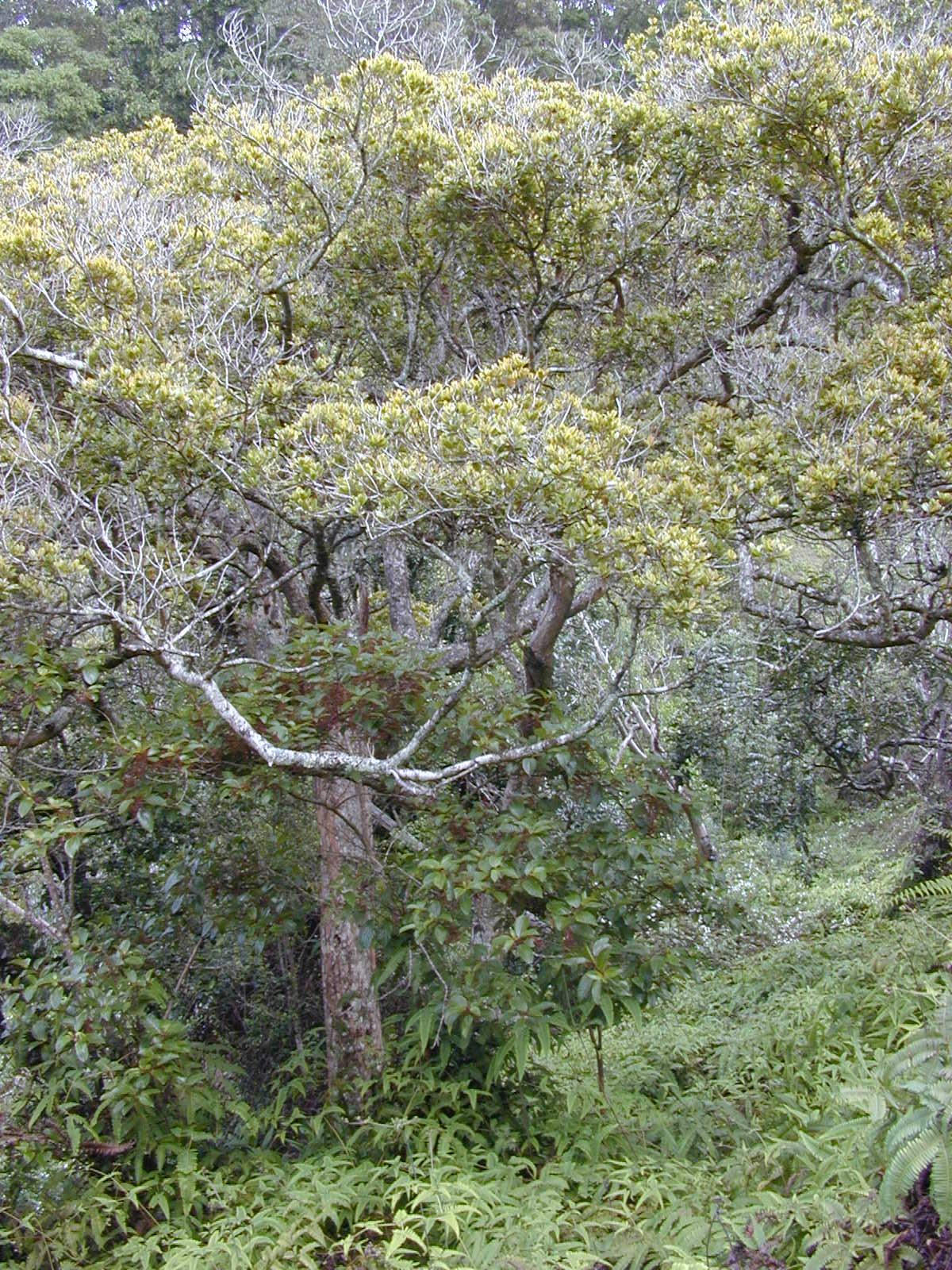 Syzygium sandwicensis (habit). Location: Maui, Makawao Forest Reserve